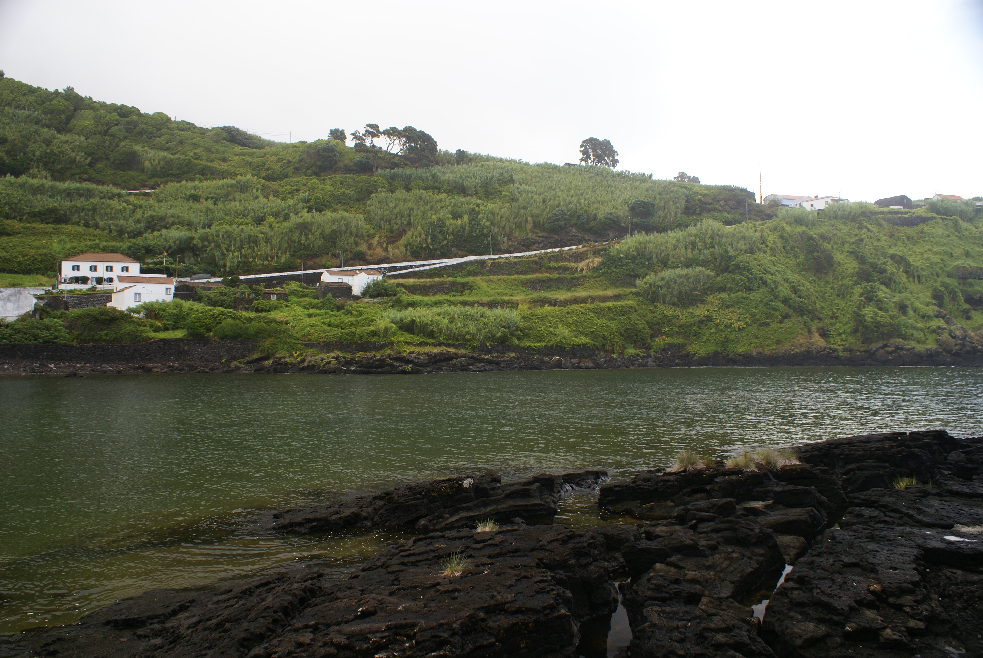 Zona de Protecção Especial para a Avifauna das Lajes do Pico, 4 Lajes do Pico, ilha do Pico, Açores, Portugal